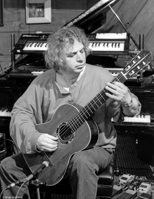 Ralph Towner with Oregon at Bach Dancing & Dynamite Society, Half Moon Bay CA 4/30/89. Photo: Brian McMillen /